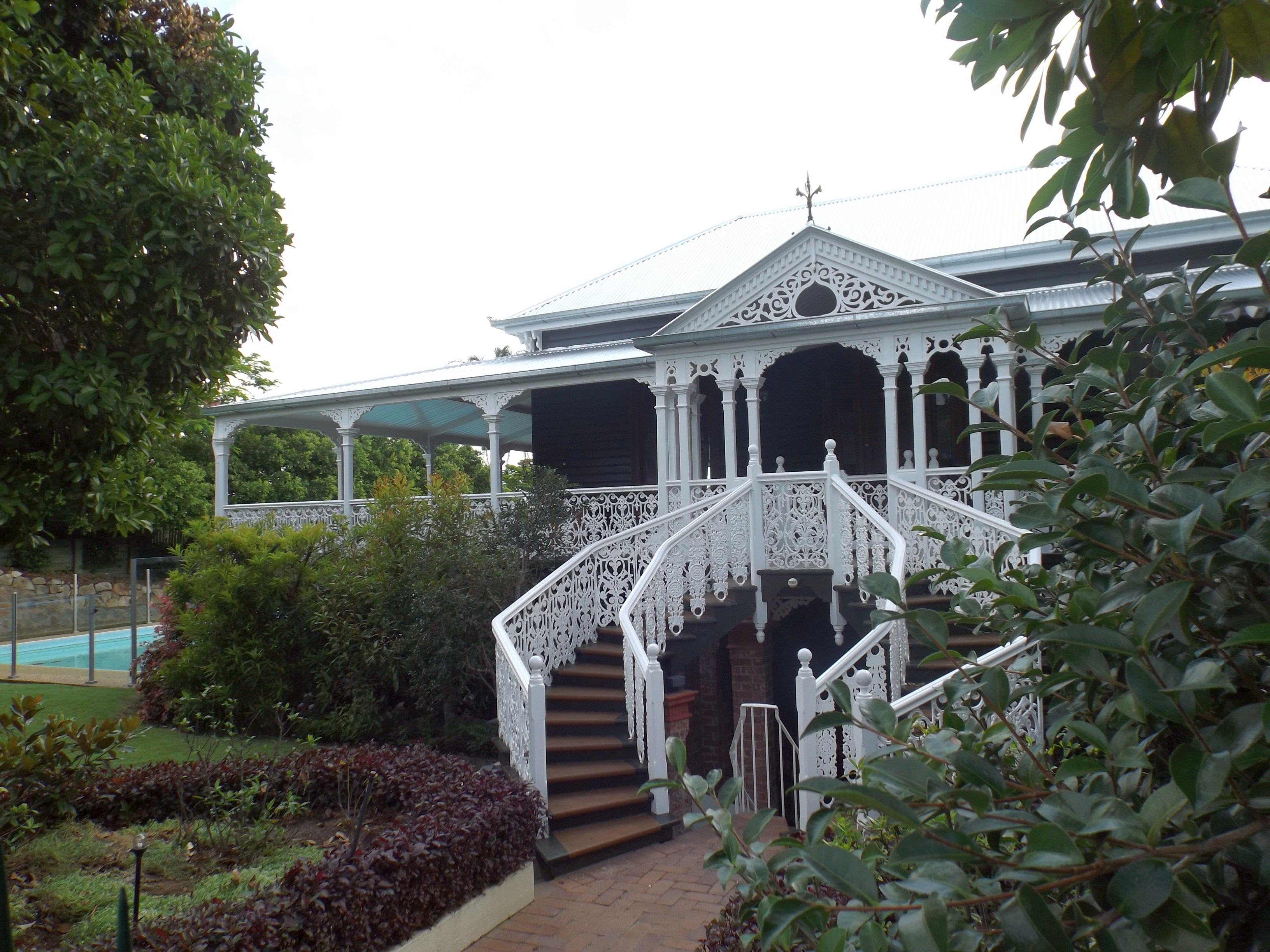 Photo of the Warrawee residence at Toowong, Brisbane, Queensland, Australia.